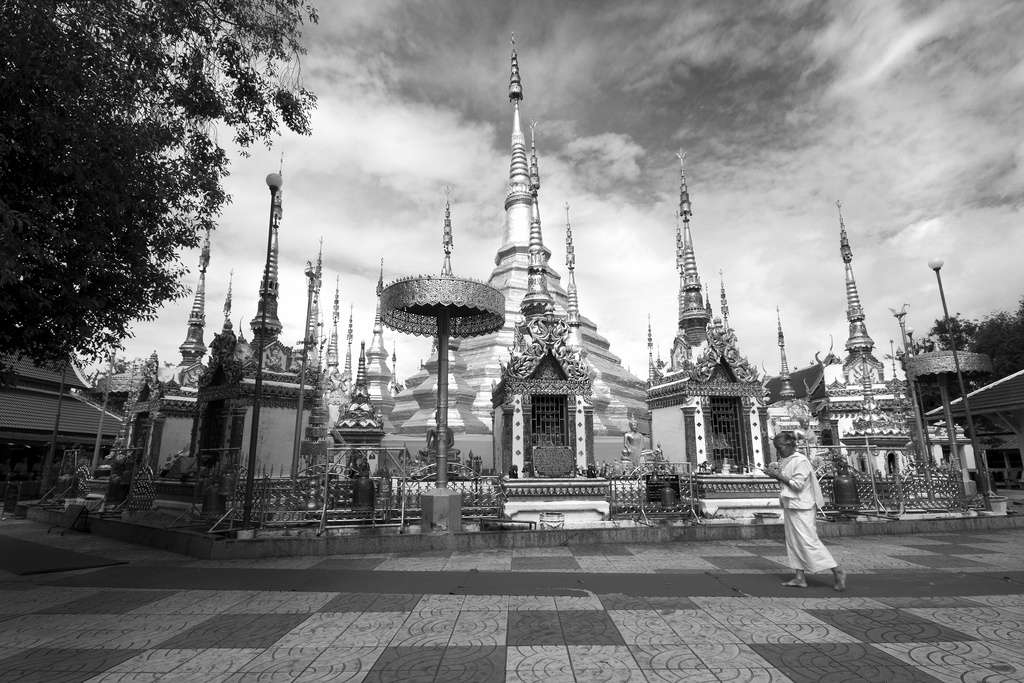 Ban Tak is near the town of Tak, Tak Province, Northern Thailand. Original description from Flickr: Wat Phra Borommathat Bantak, Tak Province, Thailand. The temple is visible from far as it sits on a hill. The temple has a large golden pagoda in Shan or Myanmar Style. The main Chedi is a copy of Shwedagong pagoda in Myanmar and is surrounded by 16 small pagodas. The main Ubosot or Ordination hall has beautiful carved wooden doors.